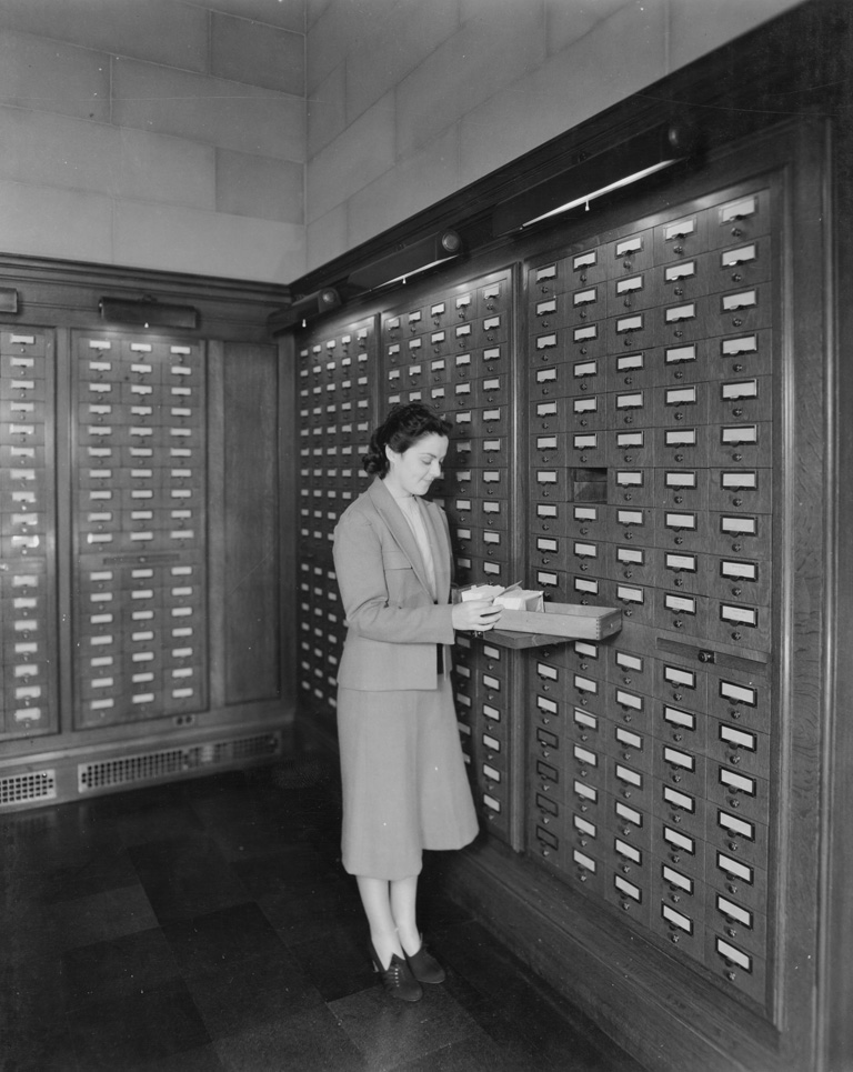 Original Caption: Card catalog in Central Search Room, July 31, 1942. U.S. National Archives’ Local Identifier: 64-NA-320 Persistent URL: Repository: Still Picture Records Section, Special Media Archives Services Division (NWCS-S), National Archives at College Park, 8601 Adelphi Road, College Park, MD, 20740-6001. For information about ordering reproductions of photographs held by the Still Picture Unit, visit: Reproductions may be ordered via an independent vendor. NARA maintains a list of vendors at Access Restrictions: Unrestricted Use Restrictions: Unrestricted